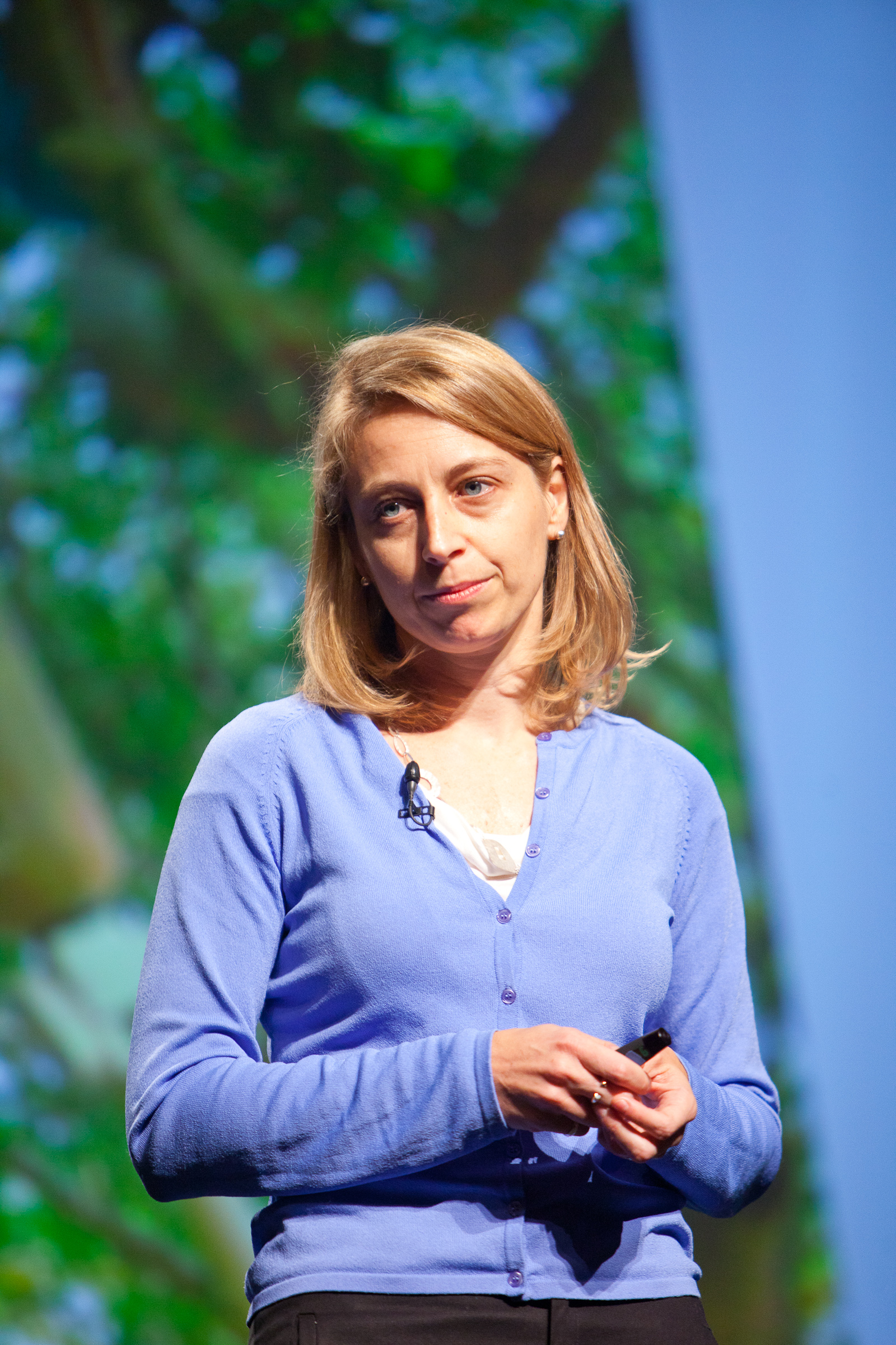 Krista Donaldson - PopTech 2011 - Camden Maine USA